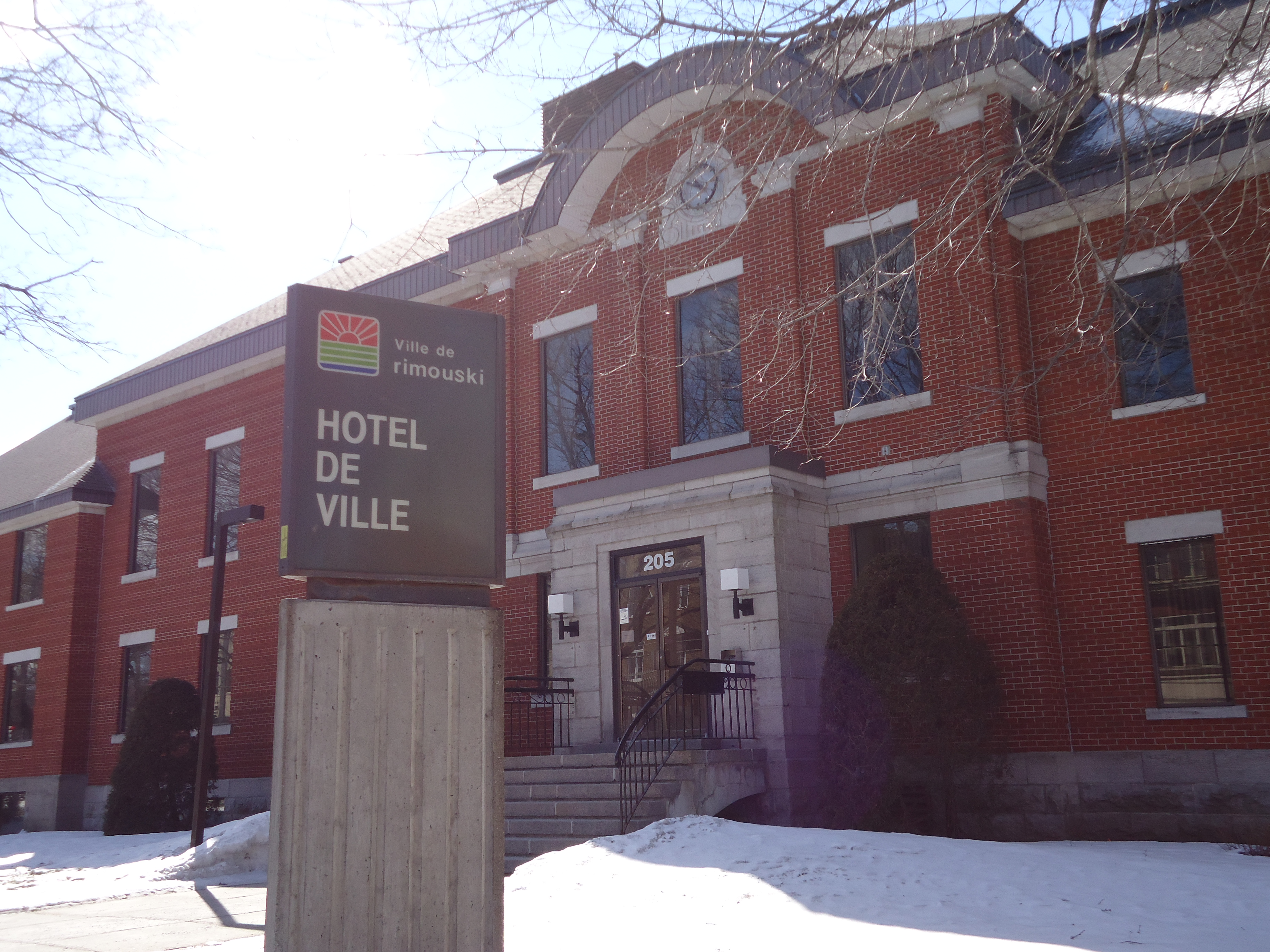 City Hall of Rimouski.